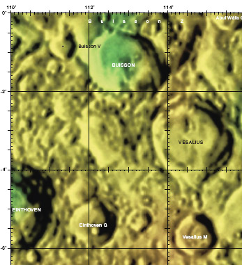 Color-coded LAC 83 image from USGS Digital Atlas.